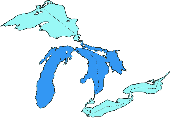 Location map for . Based on Daniel FR's Image:Great Lakes Lake Huron.png.